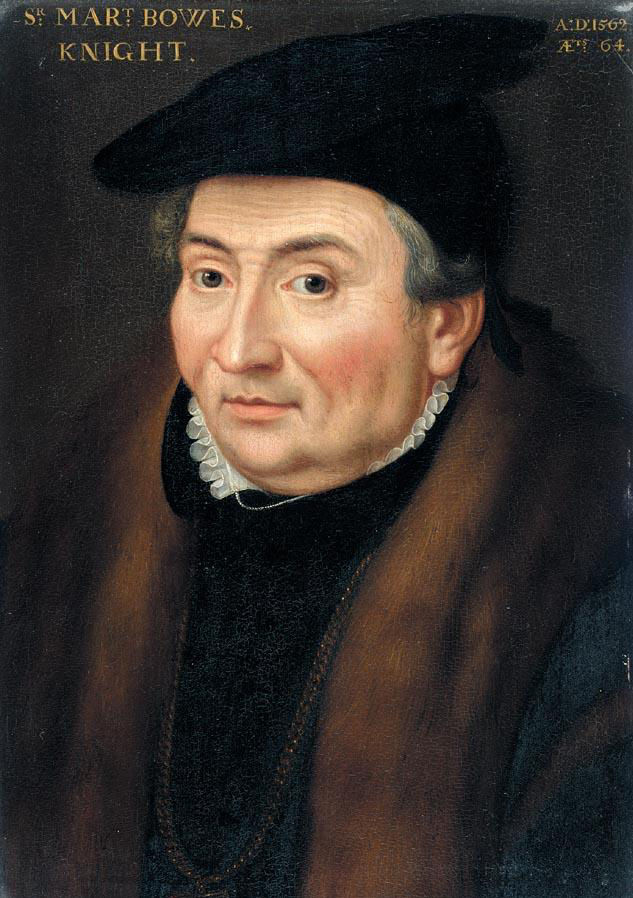 Portrait of Sir Martin Bowes (1497-1566), under-treasurer of Henry VIII, Lord Mayor of London, 13-times Prime Warden of the Goldsmiths' Company.